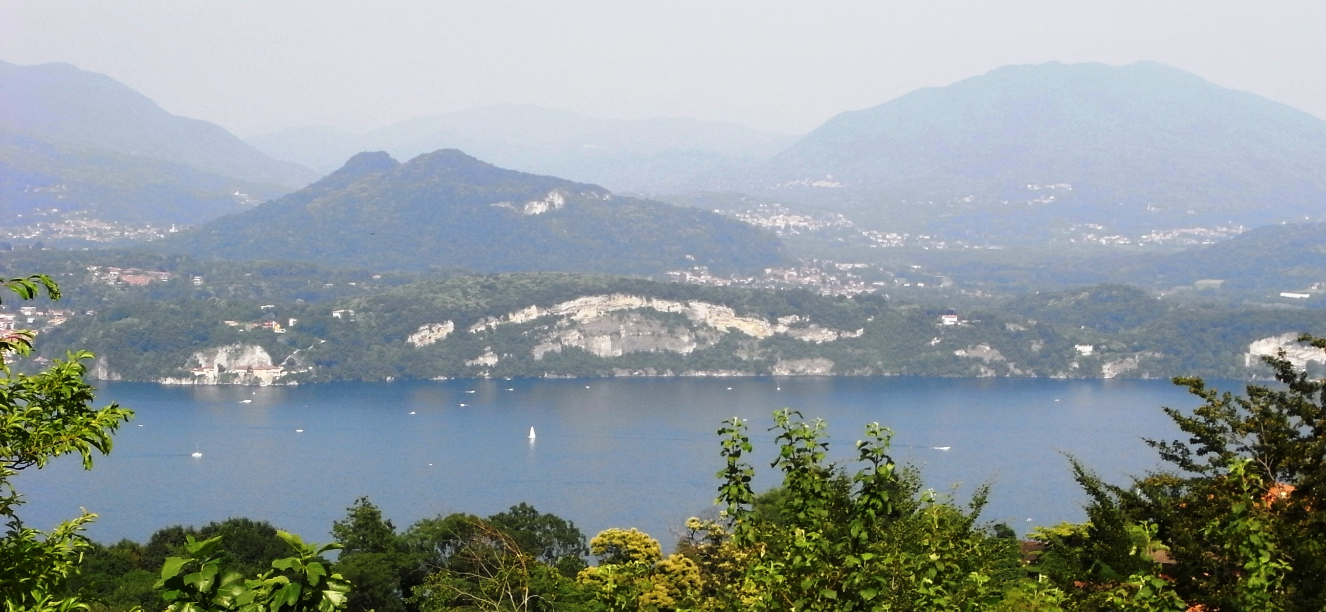 Landscape on the eastern side of Lago Maggiore formed by a landslide